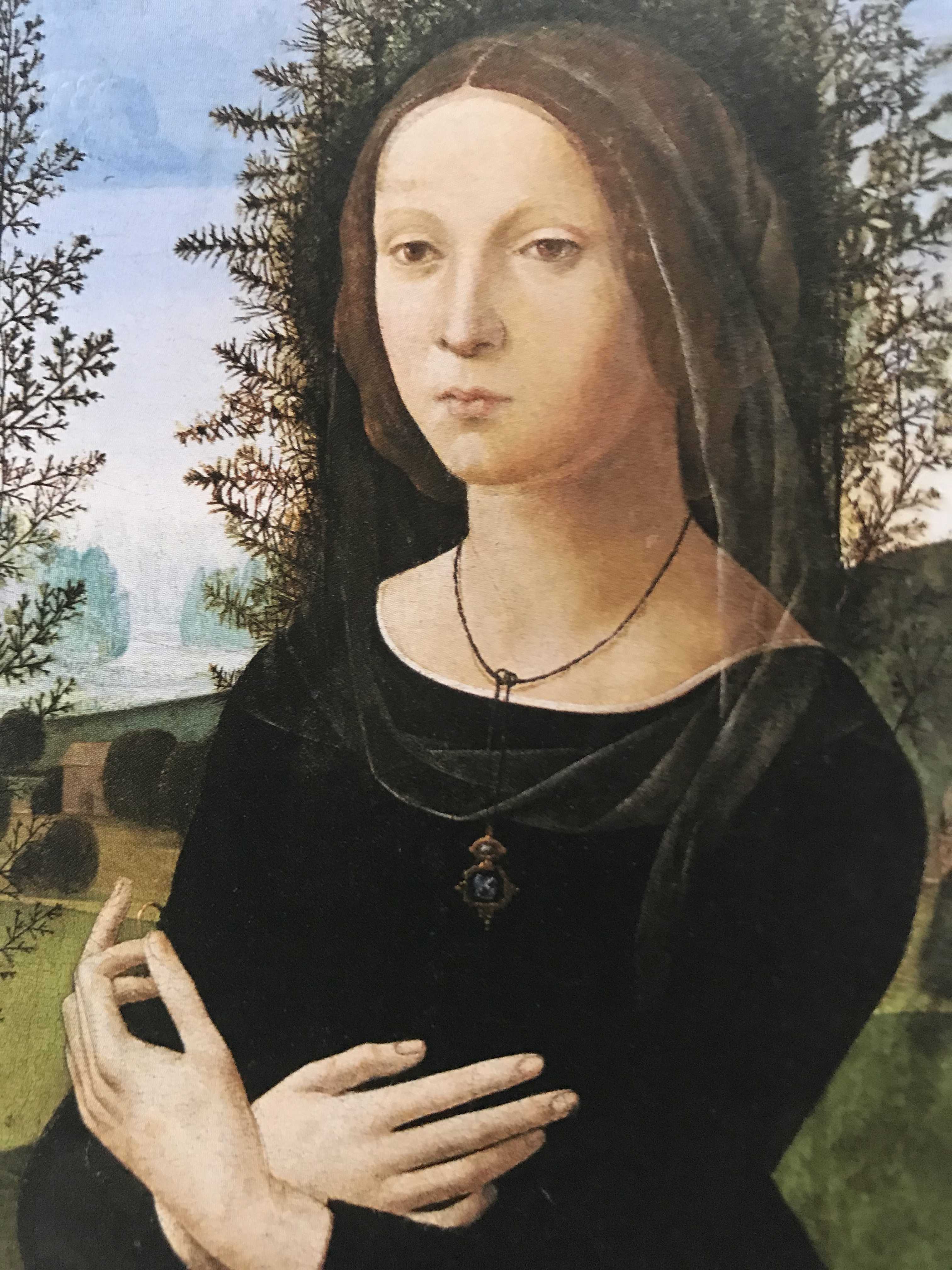 Possibly ginerva benci